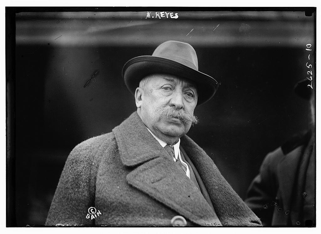 Bain News Service, publisher. R.. Reyes [1913 Jan. 16] 1 negative : glass ; 5 x 7 in. or smaller. Notes: Title from data provided by the Bain News Service on the negative. Date from similar Bain negative: LC-B2-2662-4. Photo shows Rafael Reyes Prieto (1849-1921), President of Colombia (1904-1909). (Source: Flickr Commons project, 2008) Forms part of: George Grantham Bain Collection (Library of Congress). Format: Glass negatives. Repository: Library of Congress, Prints and Photographs Division, Washington, D.C. 20540 USA, General information about the Bain Collection is available at Higher resolution image is available (Persistent URL): Call Number: LC-B2- 2625-10